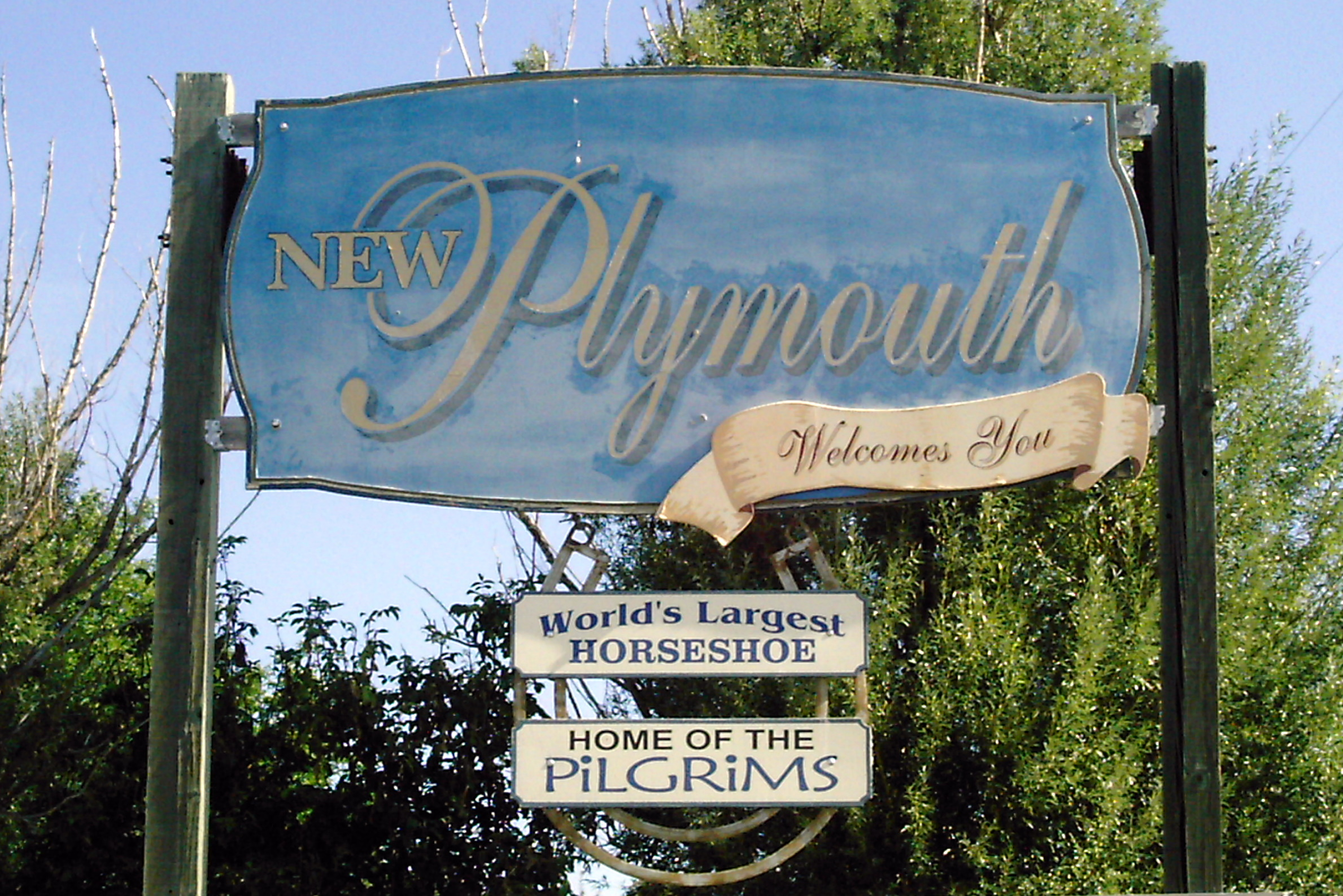 Vatsun, New Plymouth, 7/10/07, use in article about New Plymouth.